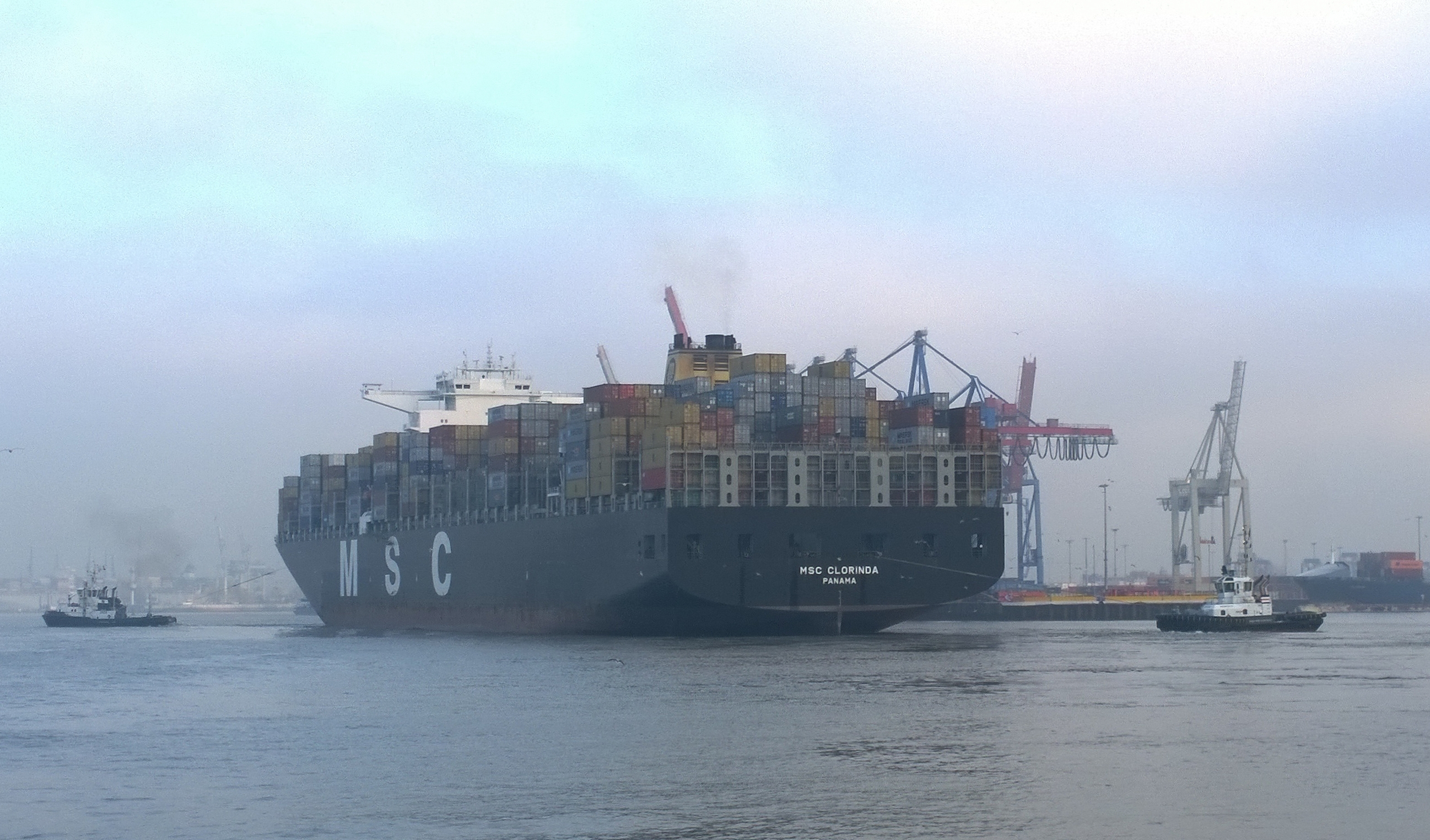 Container ship MSC Clorinda in the port of Hamburg in January 2016